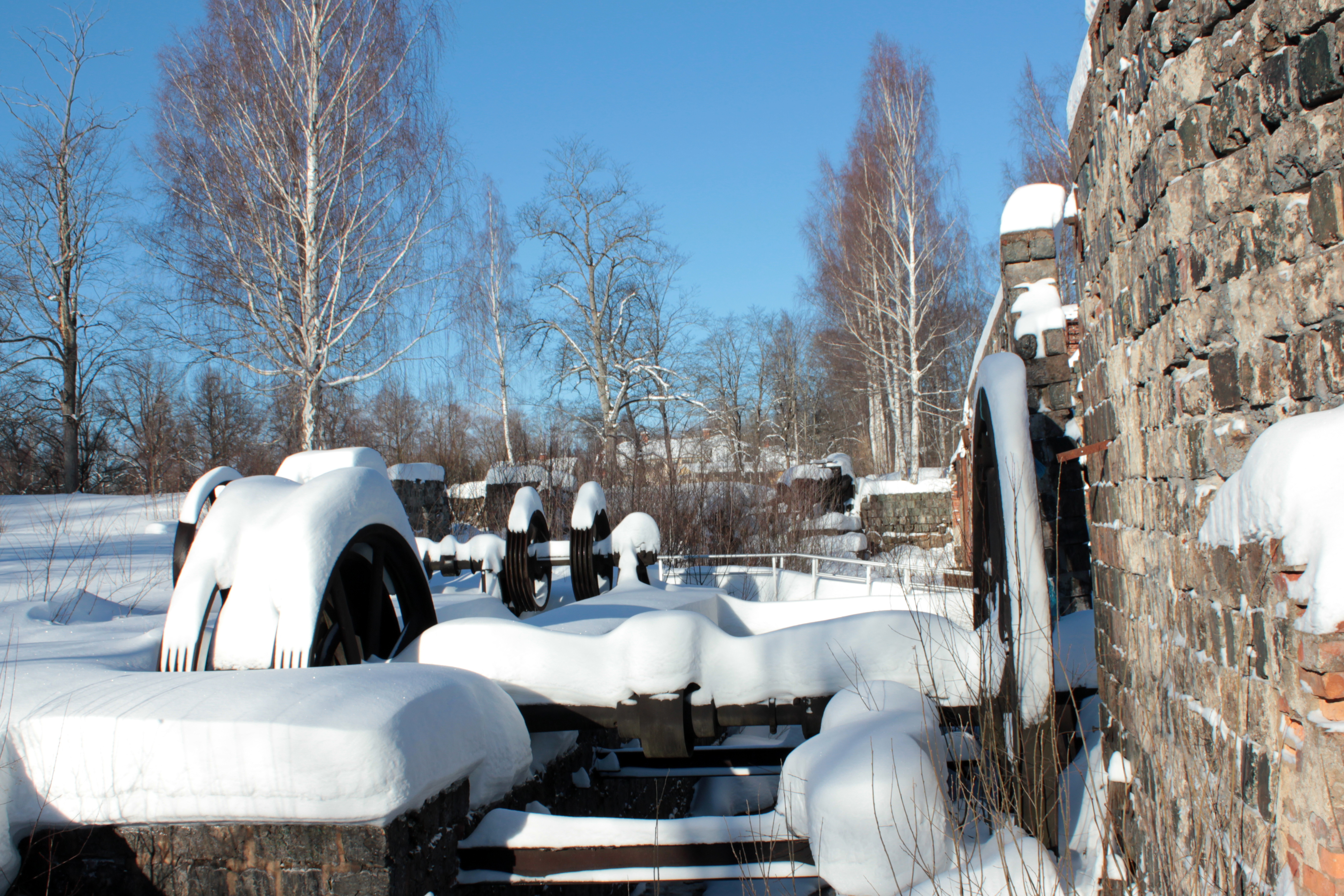 Former ironworks of Horndal, Avesta Municipality, Sweden